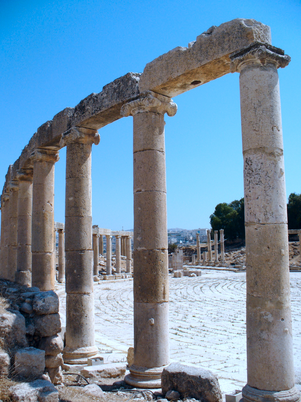 AWIB-ISAW: Colonnade in the Oval Plaza View of columns in the Oval Plaza at Jerash, Jordan. by Sarah Ferguson (2009) copyright: 2009 Sara Ferguson (used with permission) photographed place: Gerasa or Antiochia ad Chrysorhoam (Jerash) Published by the Institute for the Study of the Ancient World as part of the Ancient World Image Bank (AWIB). Further information